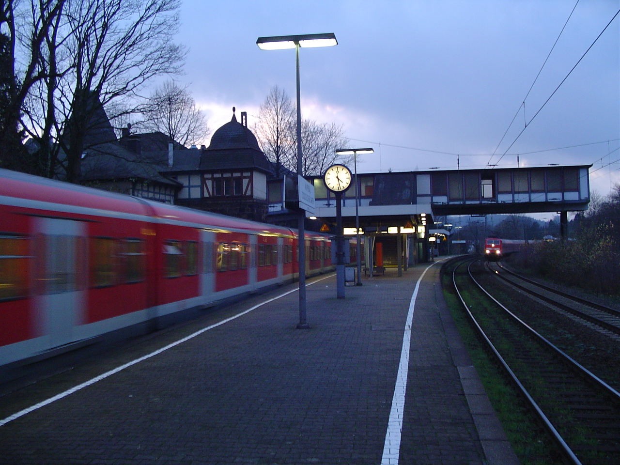 Wuppertal Zoo S-Bahn station in Wuppertal, Germany